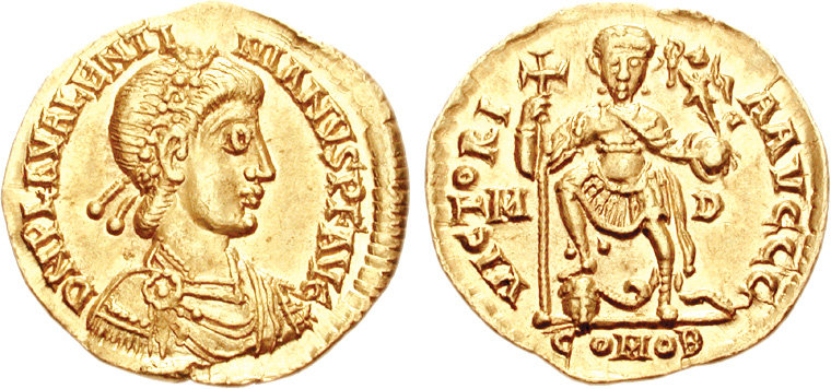 Valentinianus III. AD 425-455. AV Solidus (4.40 g, 6h). Mediolanum (Milan) mint. Struck 430-440/455 AD. D N PLA VALENTINIANVS P F AVG, Rosette-diademed, draped, and cuirassed bust right VICTOR-IA AVGGG, Valentinian standing facing, right foot on human-headed serpent, holding long cross and Victory: in field M-D; in exergue COMOB. RIC X 2025; Cohen 19, Depeyrot 20/2. Near EF, obverse struck with slightly rusty die. From the Marc Poncin Collection.